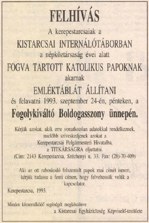 Leaflet in 1993 - Kerepestarcsa